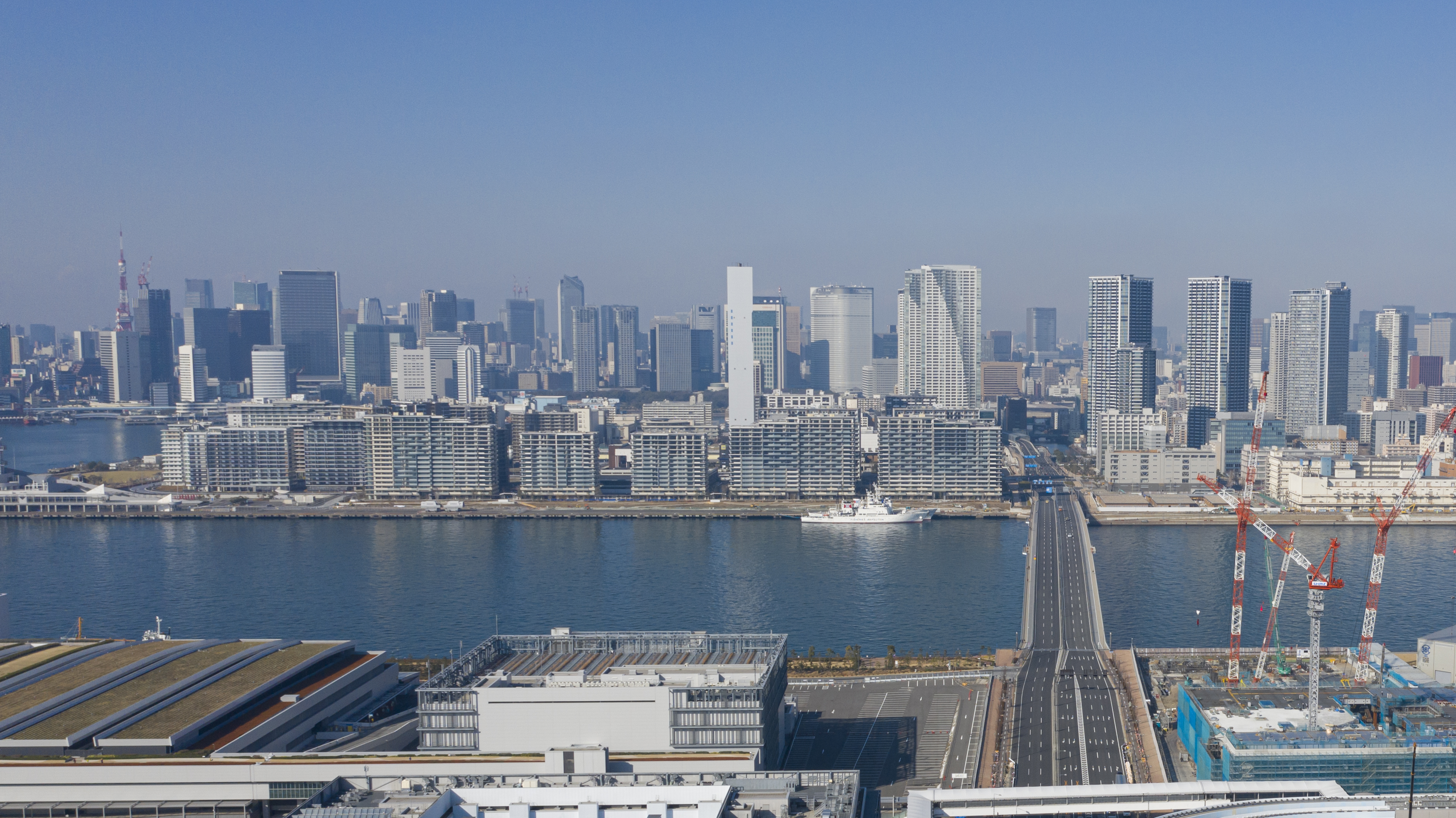 Aerial view of the 2020 Olympic village Tokyo, Japan